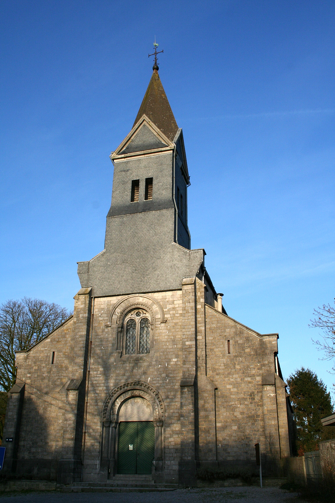 Maffe (Belgium), the Léger church (1873-1874).